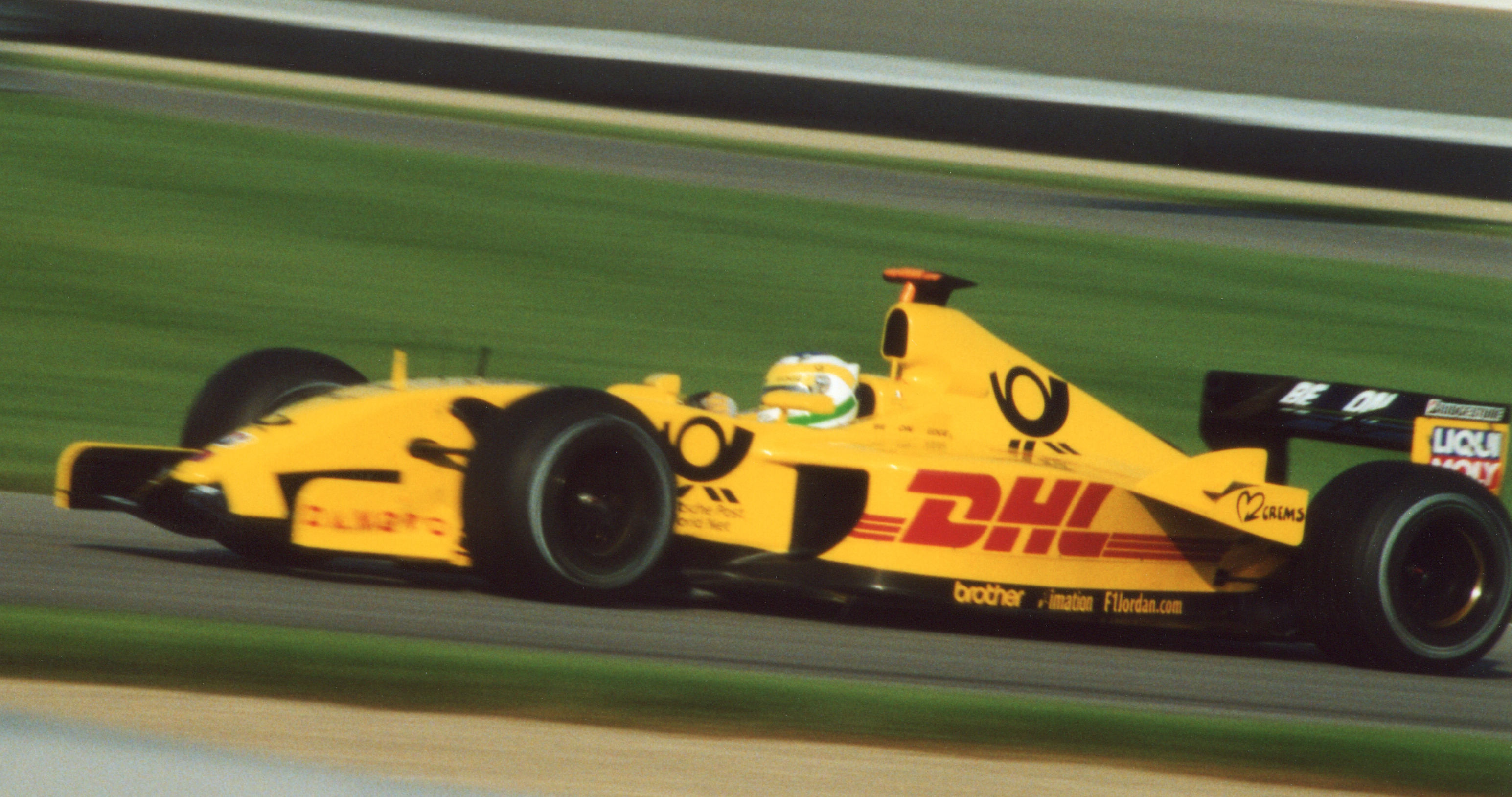 Giancarlo Fisichella driving for the Jordan Grand Prix Formula One team at the US Grand Prix at Indianapolis, 2002